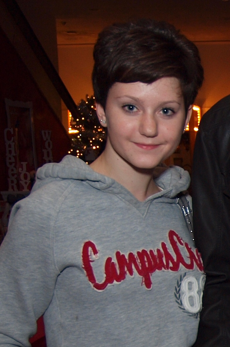 Jordan Todosey at the 2010 Gemini Awards